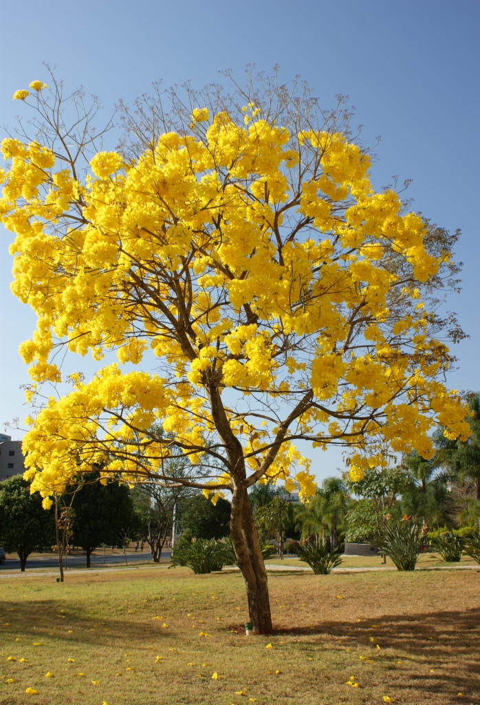 Handroanthus serratifolius (A.H. Gentry) S.Grose - Sin: Tabebuia serratifolia (Vahl)G. Nichols - BIGNONIACEAE - SQN 311 - Brasília - Distrito Federal - Brasil.